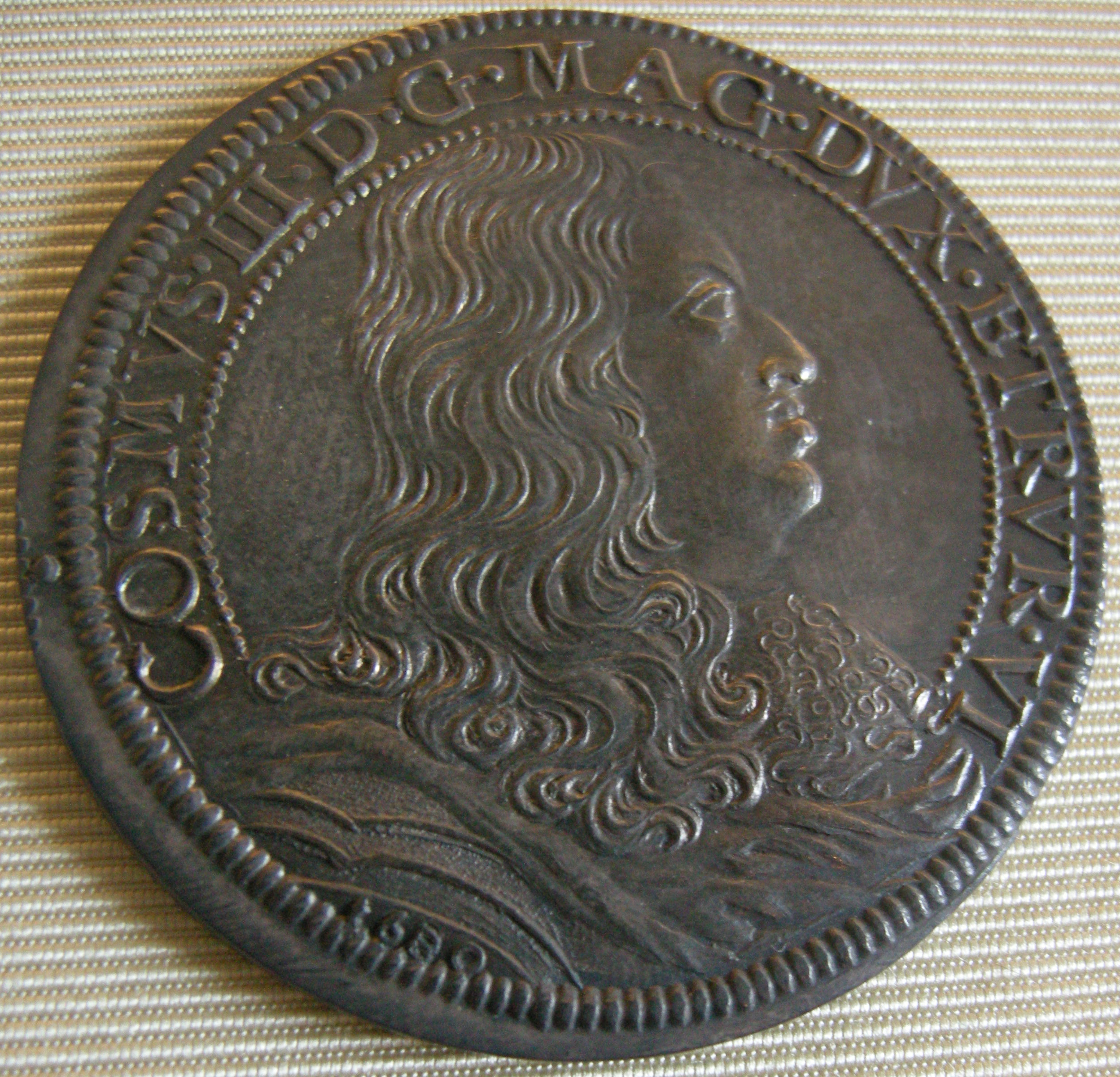 Cosimo III granduke of tuscany coins, 1670-1723, piastra 1680